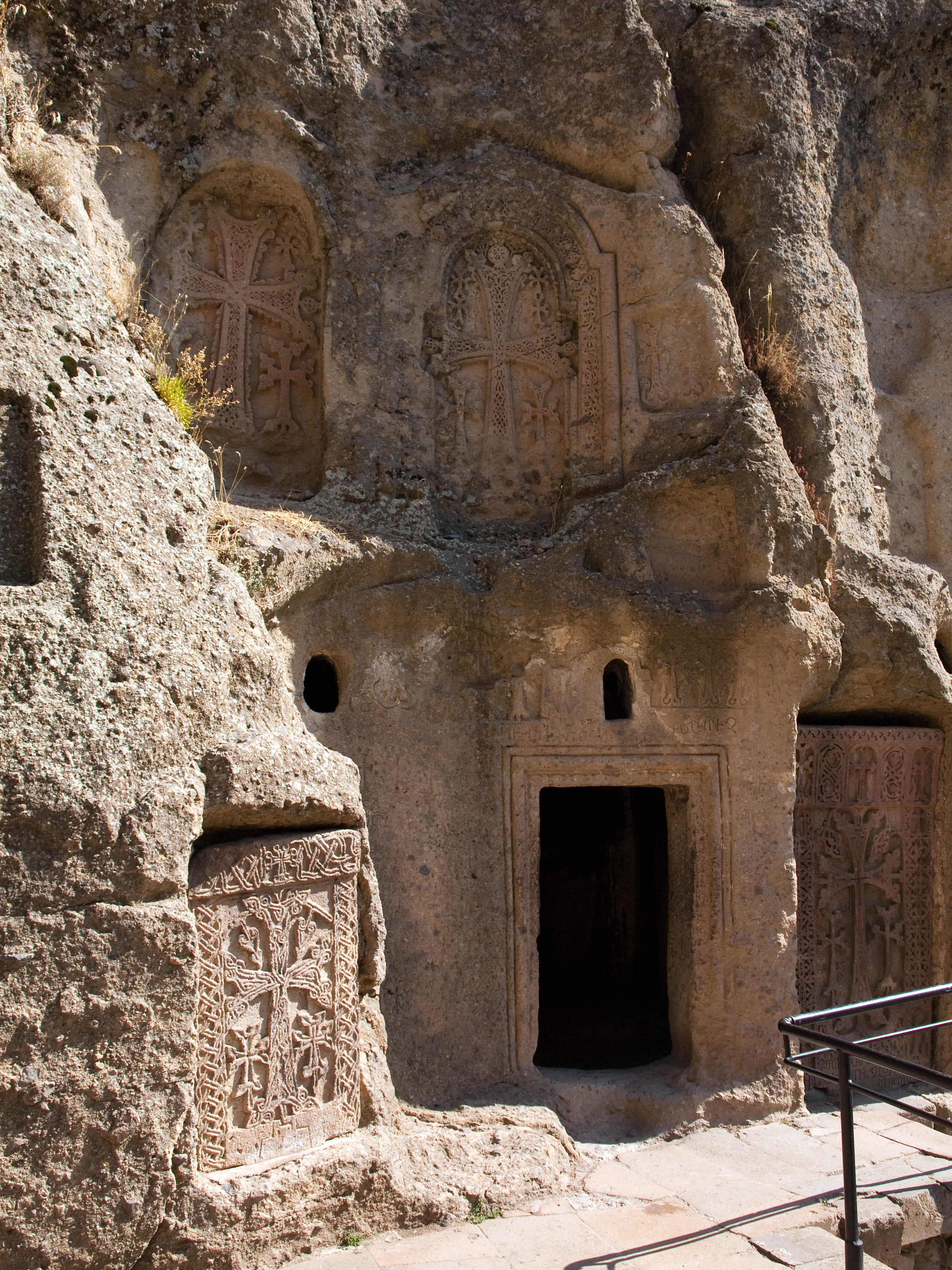 Rock chapel, Geghard, Armenia.